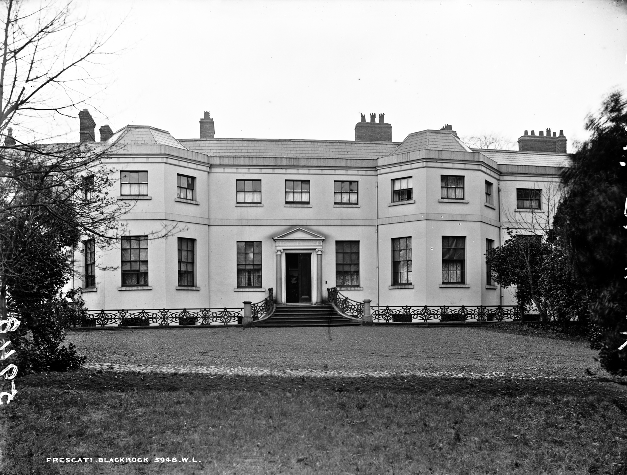 Once one of the great houses of Dublin and today a shopping mall, the demolition of this building was viewed by quite a few as a "monumental act of vandalism". [/photos/66311327@N05/ B-59] draws our attention to the Frescati House Wikipedia article which covers its history and association with the FitzGerald family and United Irishmen. Perhaps most interesting however (made relevant in recent times with events affecting other 18th century manor homes) are the sections of the Wikipedia article dealing with the 15 year fight to save Frescati from demolition. Ultimately unsuccessfully..... Photographer: Robert French Collection: Lawrence Photograph Collection Date: between 1880-1900 NLI Ref: L_ROY_05948 You can also view this image, and many thousands of others, on the NLI’s catalogue at